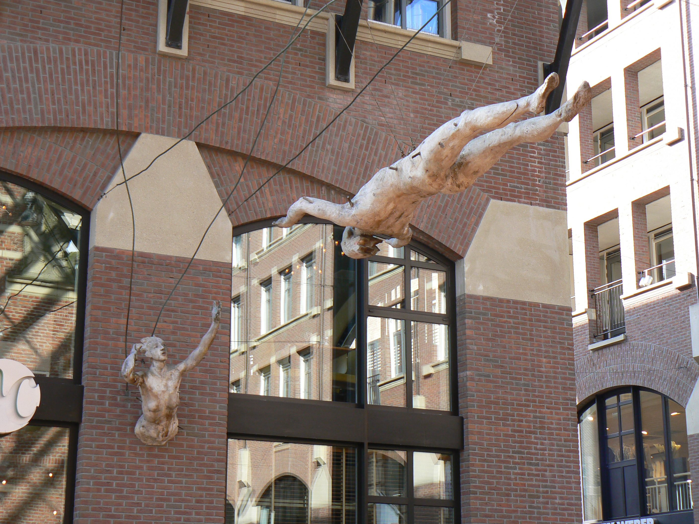 sculpture Farsi largo/Making space (1996) by Janet Mullarney in Groningen/The Netherlands